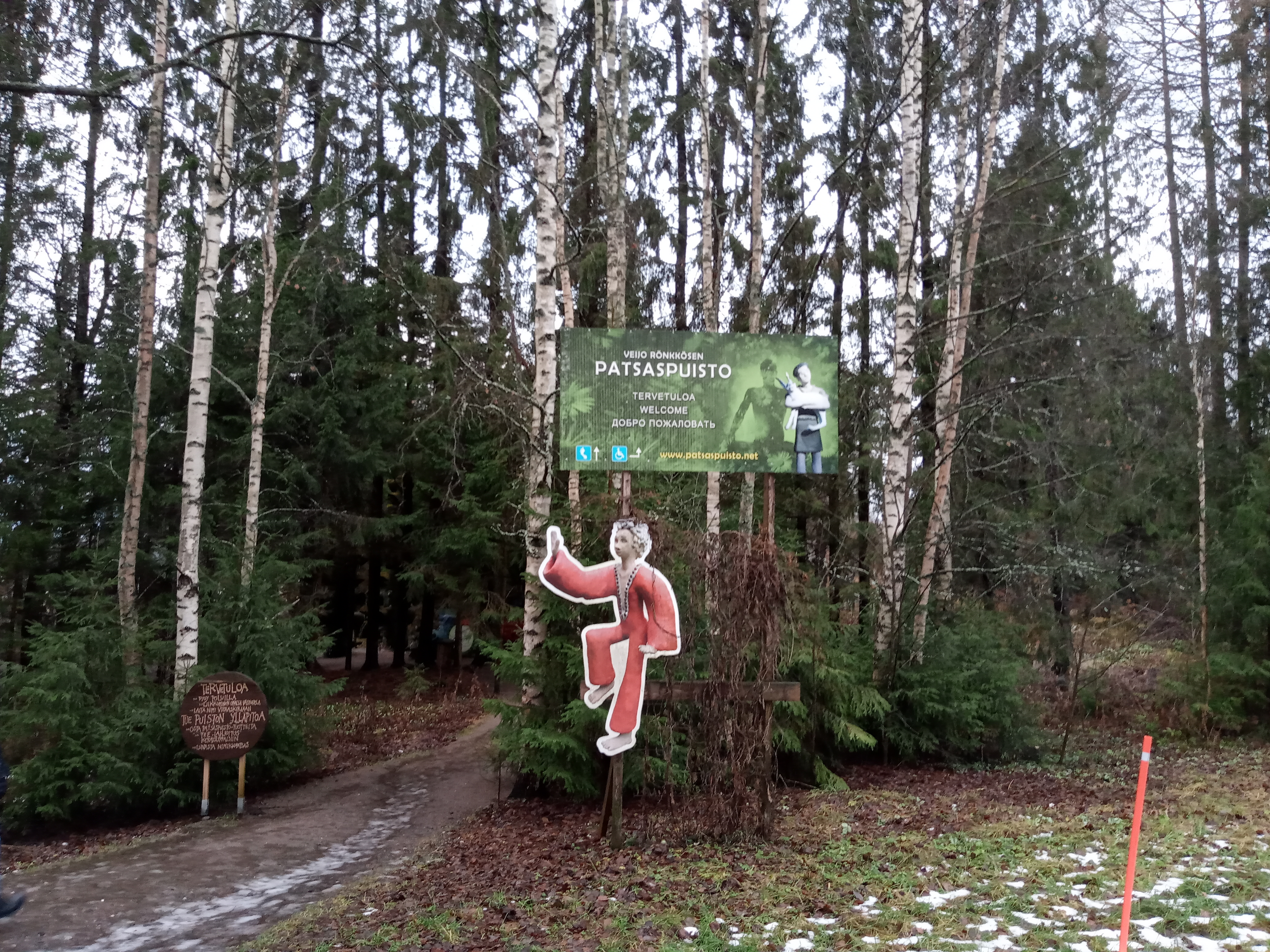 Parikkala Sculpture Park, December 9, 2019.